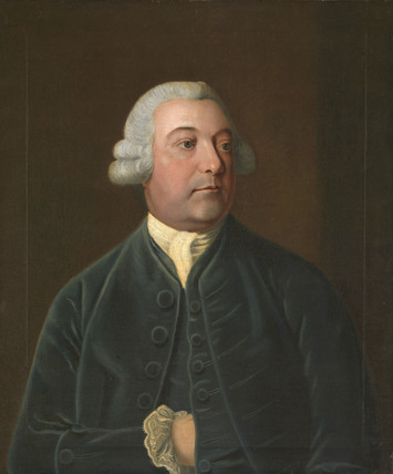 Sir Thomas Slade, Surveyor Royal Navy, Master Shipwright